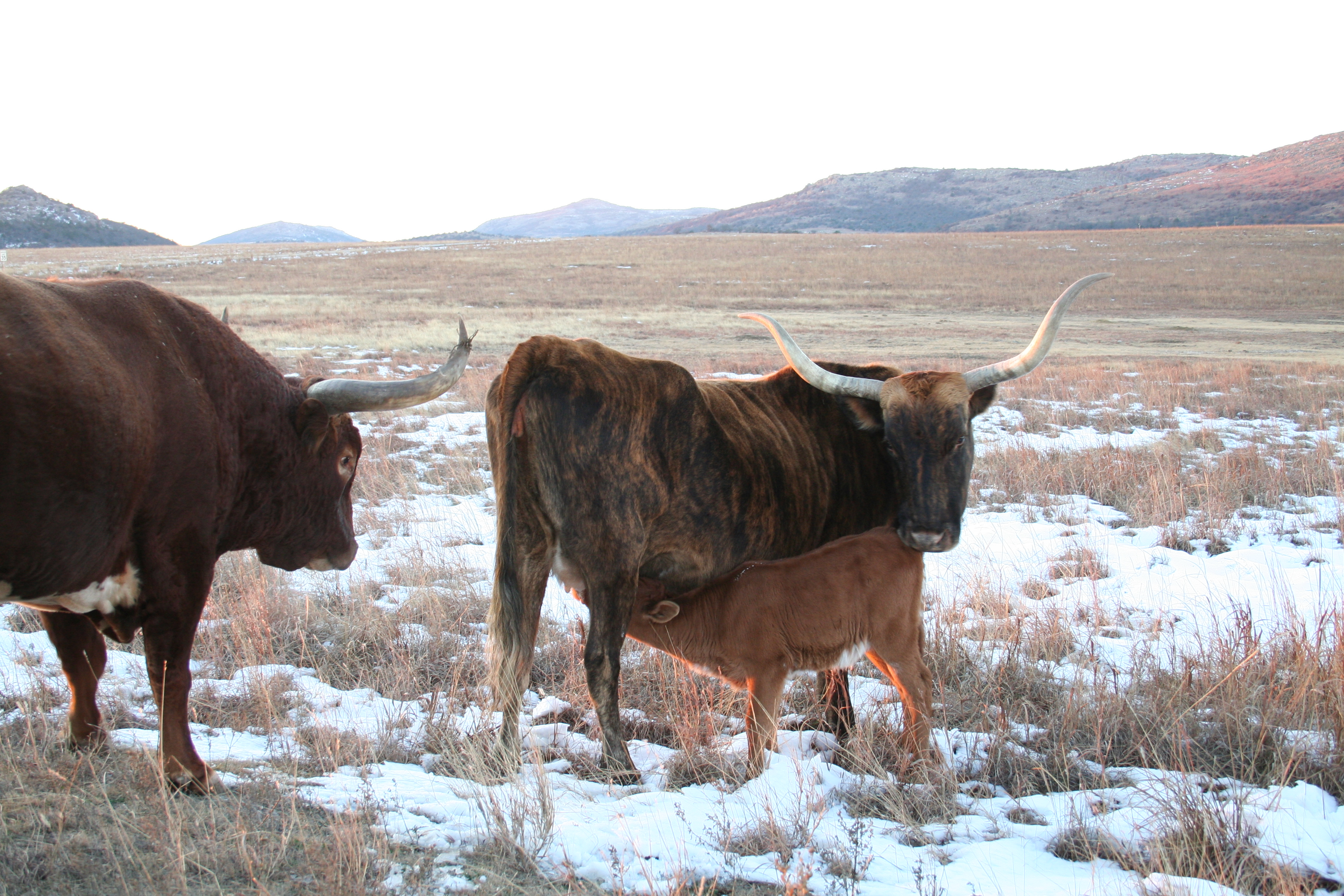 Photo by Kit Conn Category:Images of Oklahoma